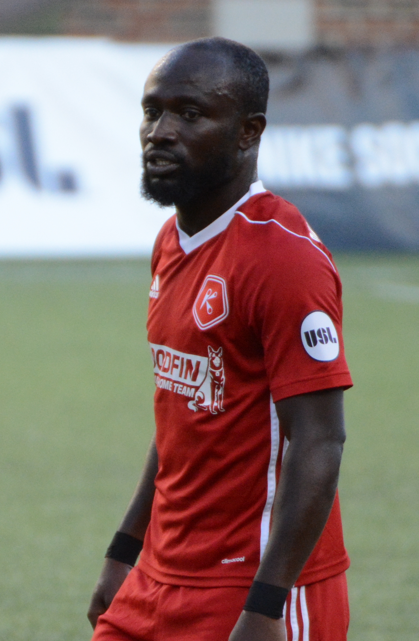 Taken during a USL regular season match between FC Cincinnati and Richmond Kickers at Nippert Stadium in Cincinnati, USA on July 9, 2017.